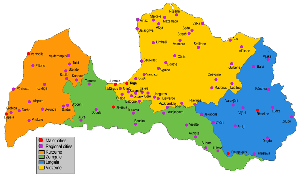 Map of Latvia showing regions and cities